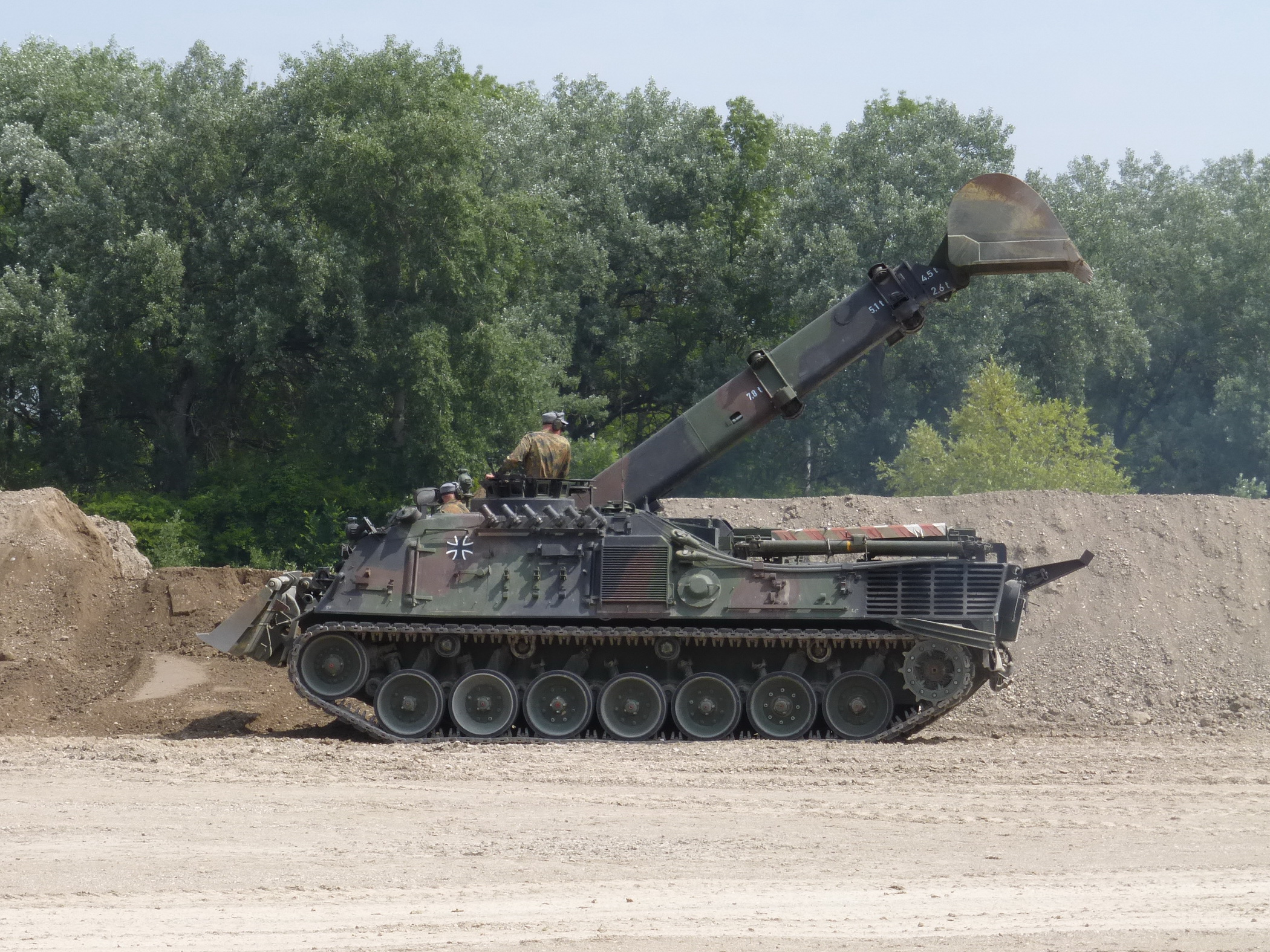 Armoured Combat Engineering Vehicle "Dachs" at the "Day of the Bundeswehr 2018" in Ingolstadt, Bavaria